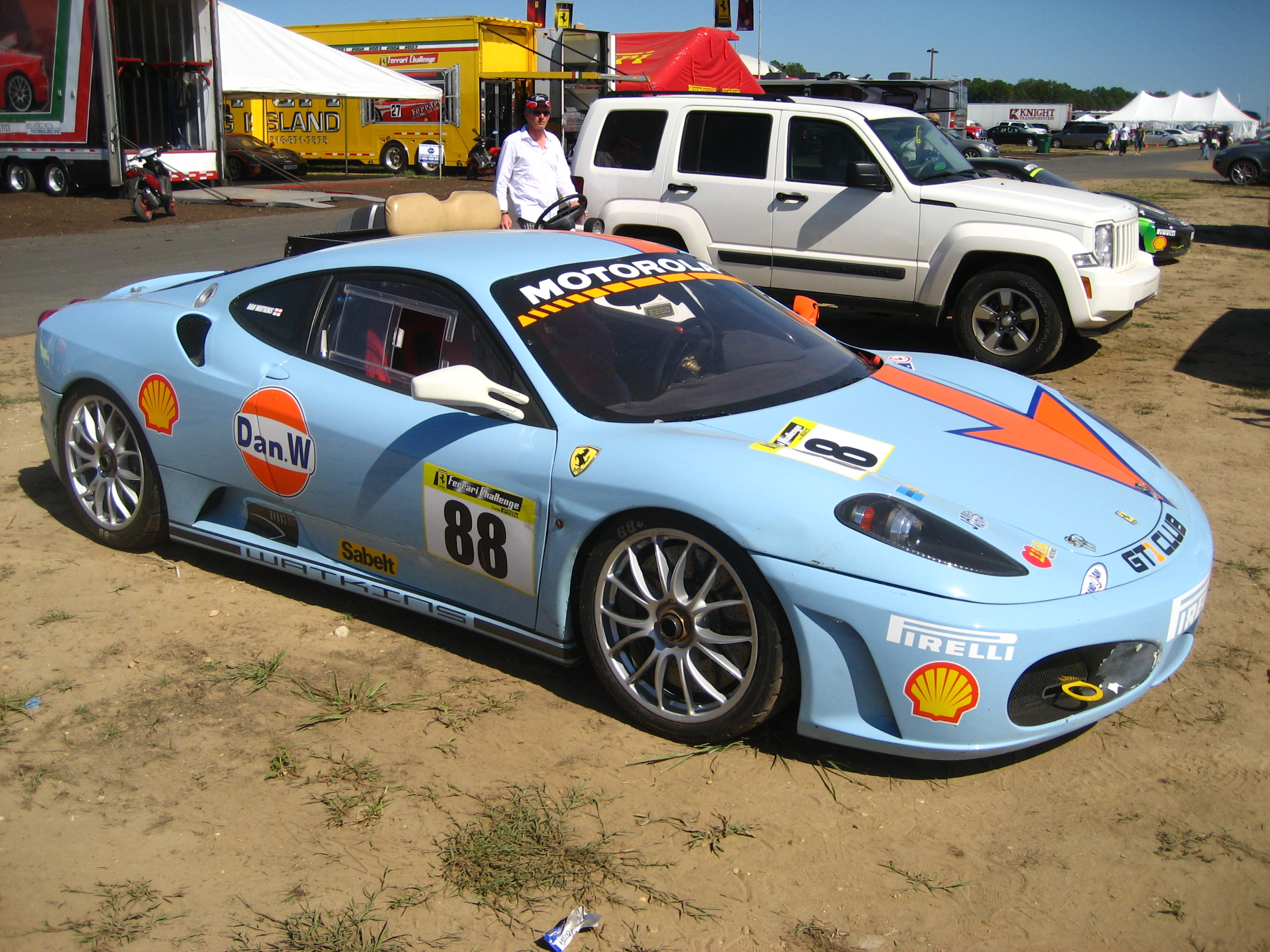 A Ferrari F430 Challenge at New Jersey Motorsports Park.